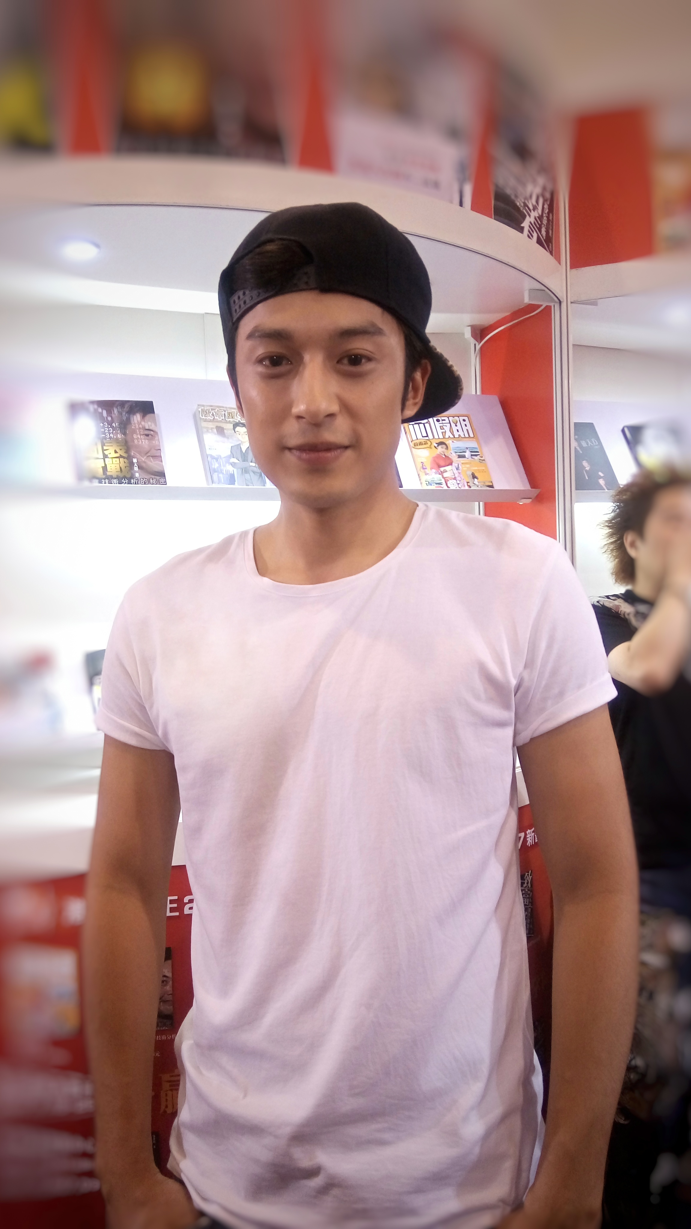 Artor Li Yam San